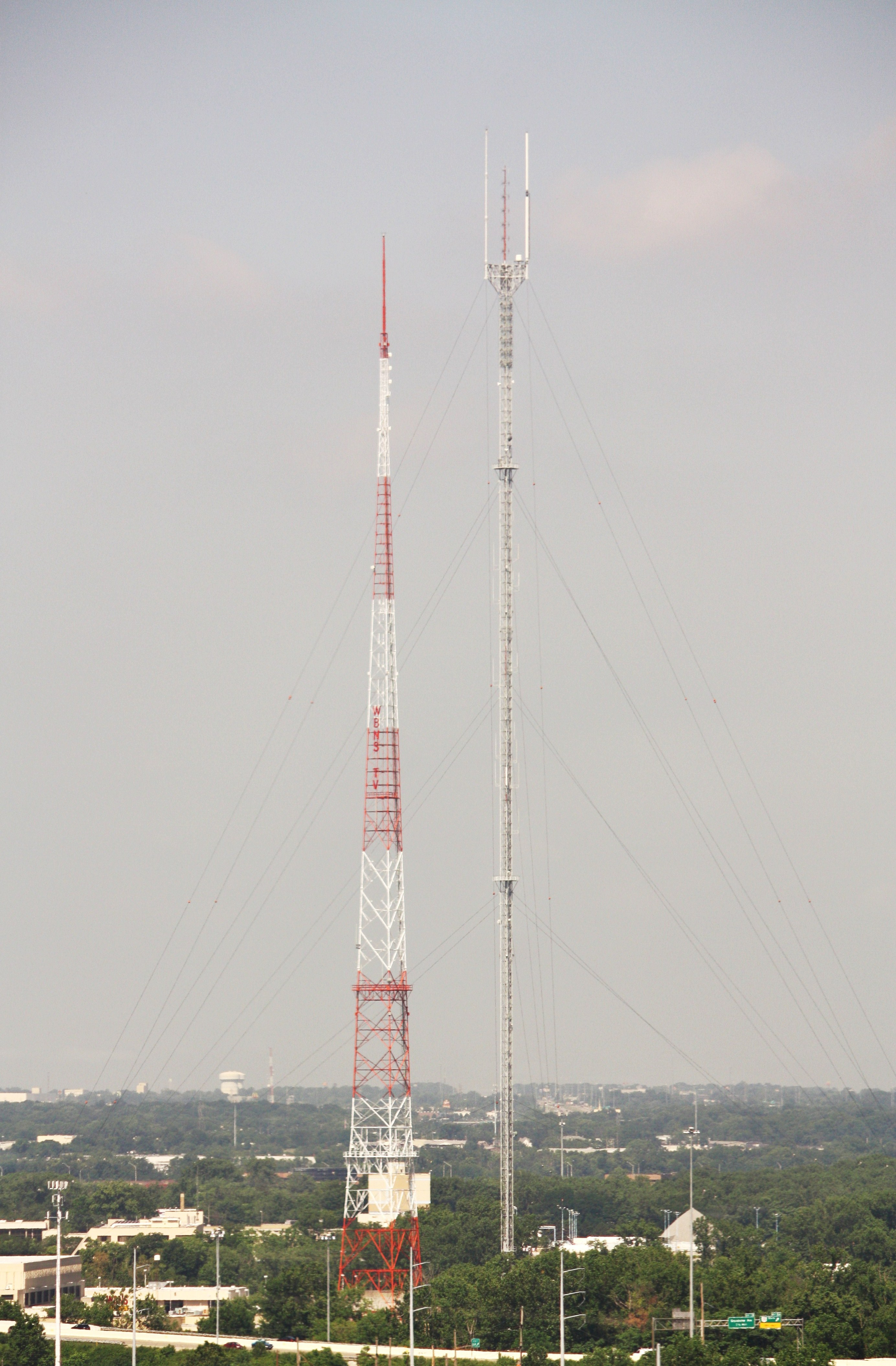 Transmission towers of WBNS-TV (left) and WBNS-FM, Columbus, Ohio. View from the downtown Hyatt Regency.